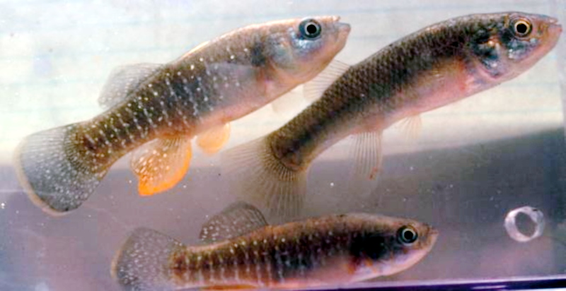 Three mummichogs (Fundulus heteroclitus heteroclitus); the two brightly coloured fish at top and bottom are males, with a duller female betweem them. Image ID: nerr0338, NOAA National Estuarine Research Reserve Collection Location: Vicinity of Georgetown, South Carolina